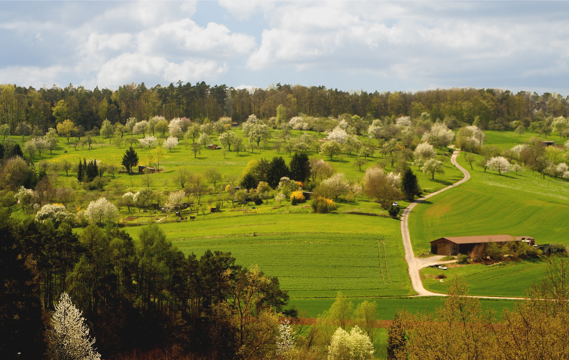 Streuobstwiese (in temperate, maritime climate of continental Western Europe). While Streuobstwiesen were a rural community orchard (19th and early 20th century) for productive use of stone fruit, today such landscapes are only endorsed for their ecological biodiversity.